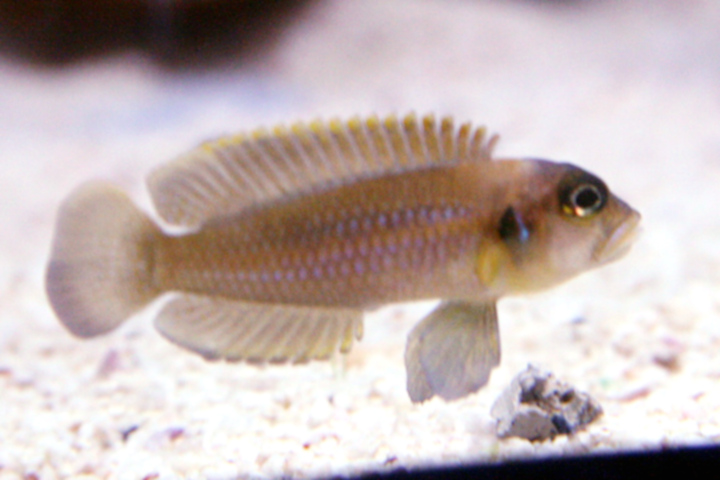 A small shelldwelling cichlid Lamprologus ocellatus "orange" at the 20th Pramong Nomklao fish show event at the Future Park Rangsit, Thailand, in July 2008. Picture taken by myself.